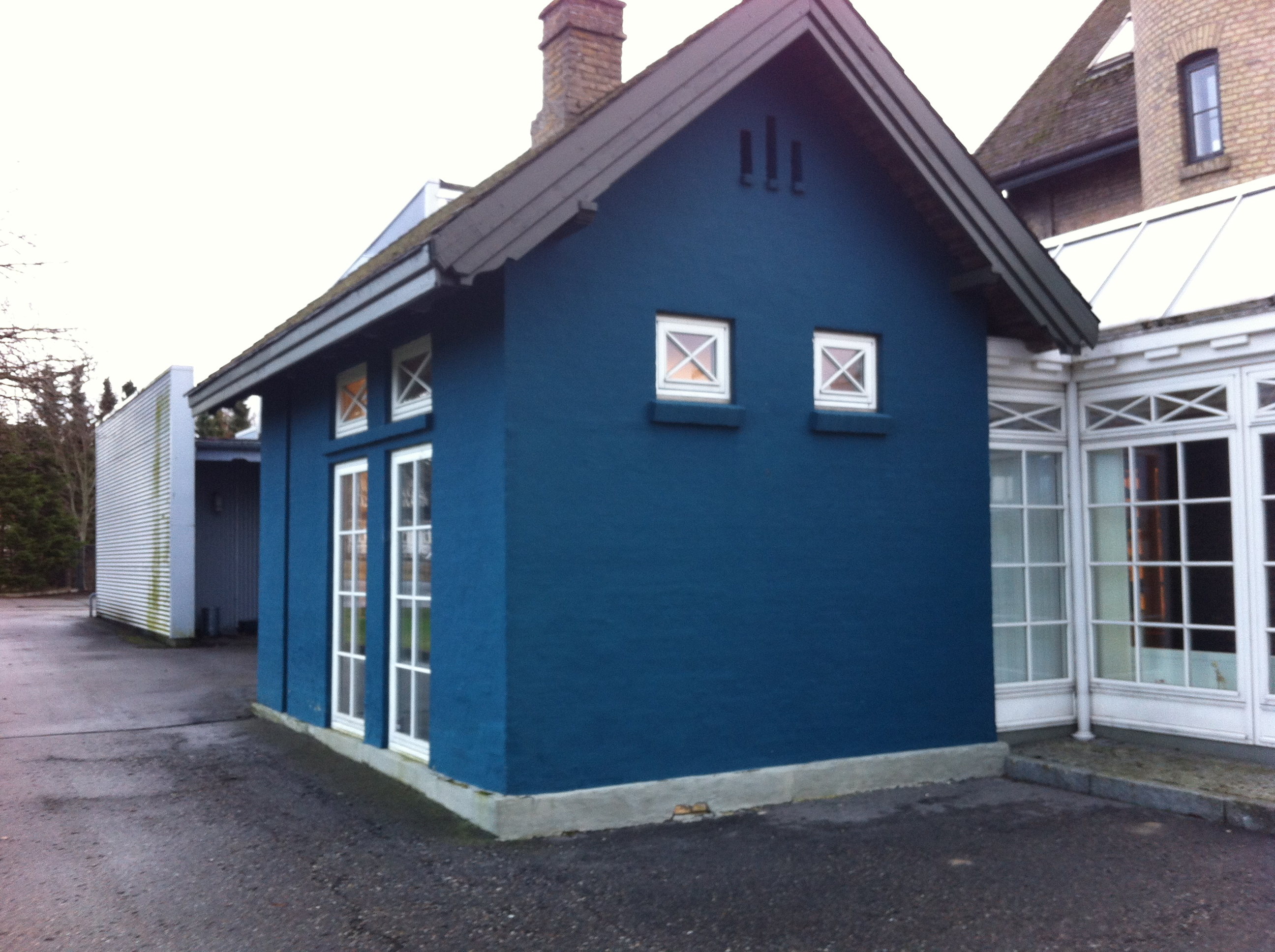 Department store to the abandoned Hadsund South Station on Mariagervej in Hadsund stand here today as well.